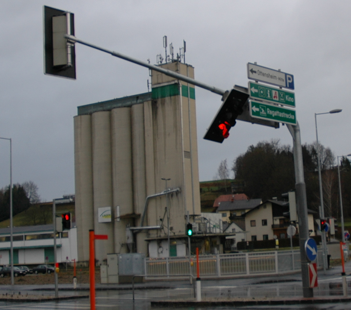 twisted traffic light in Ottensheim, Austria, after the european Windstorm "Kyrill", which was here the strongest between 0 and 4 am of the 19th january 2007.